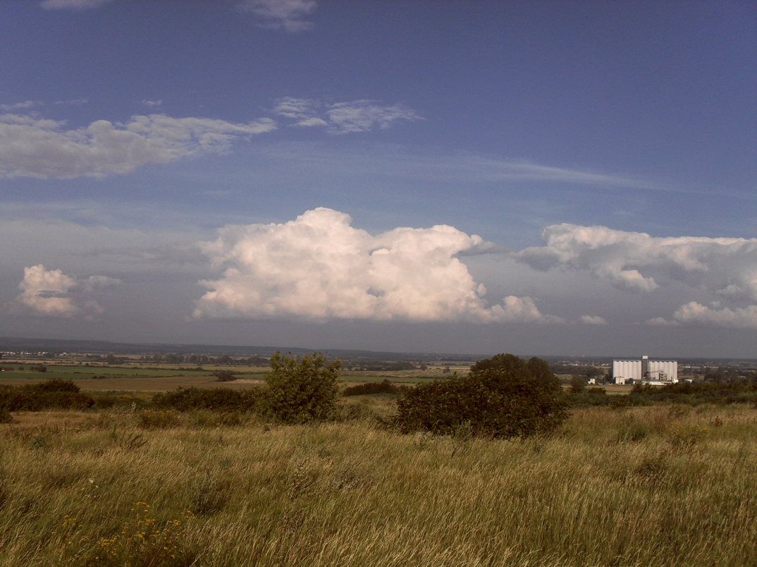 Albinov Hill (177,0 m (580,7 ft)), Borough of Albinov, Town of Sečovce